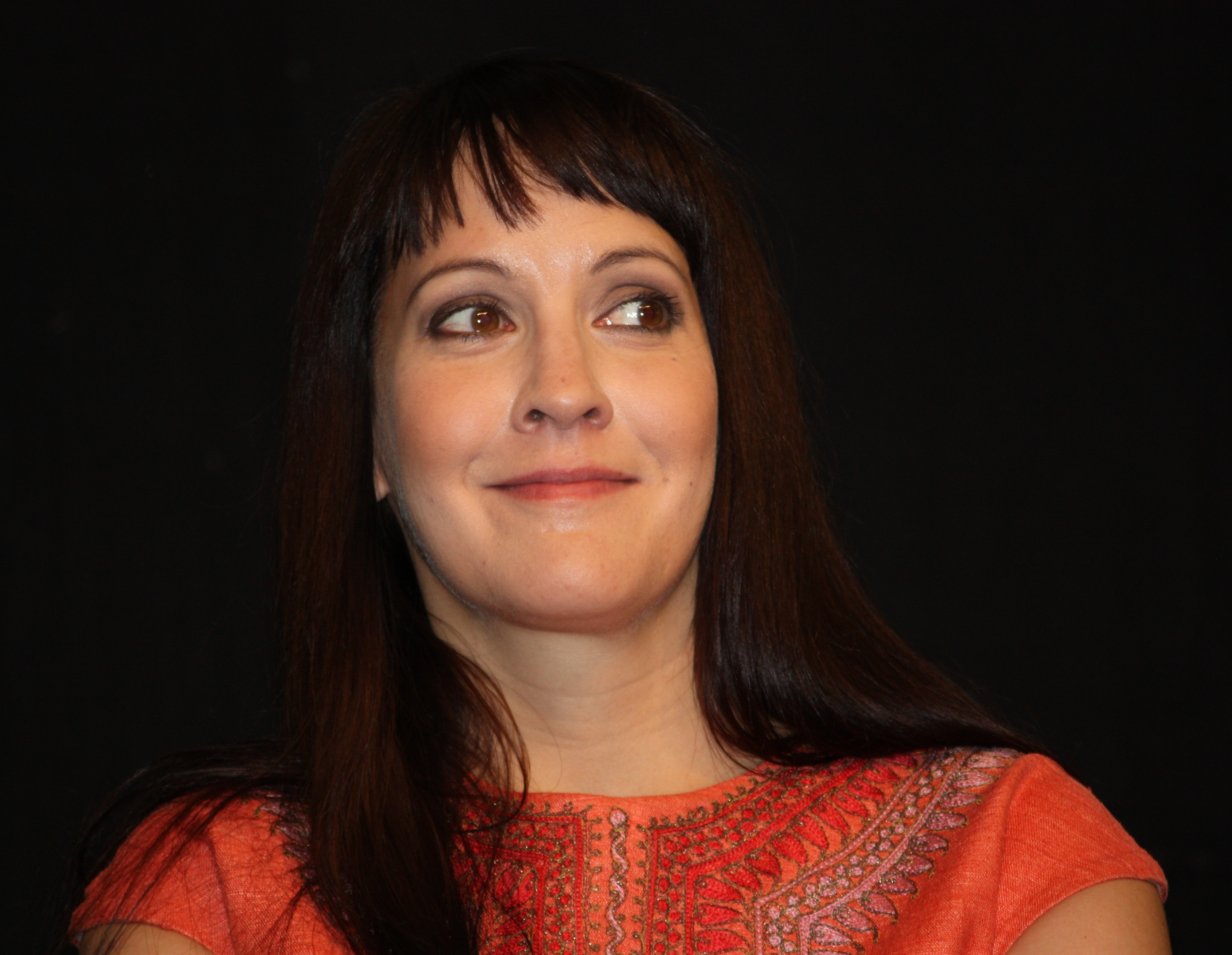 Finnish actress and vocalist Vuokko Hovatta at the Helsinki Book Fair 2011